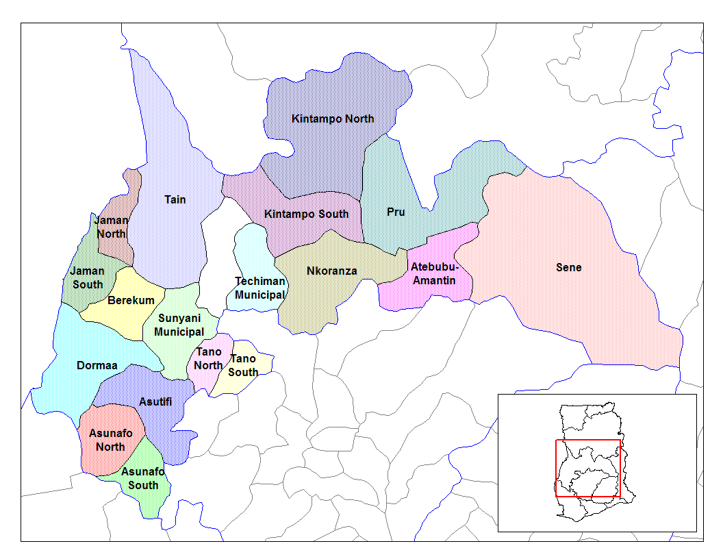 Map of the districts of the Brong Ahafo region of Ghana. Created by Rarelibra for public domain use. Created using MapInfo Professional v7.5 and various mapping resources.